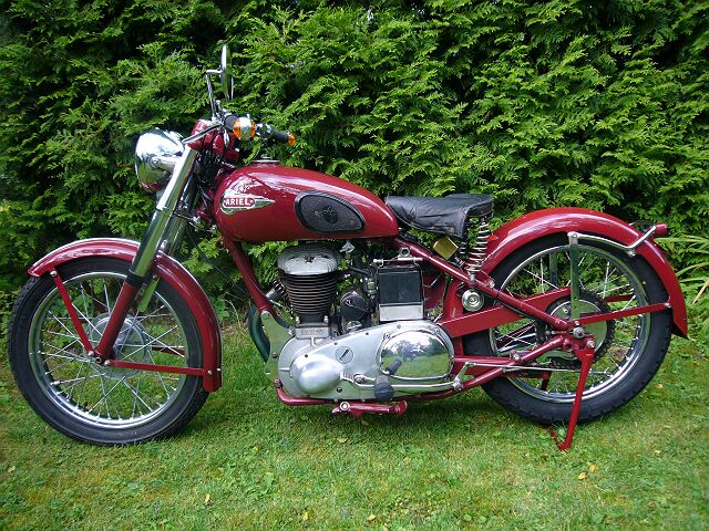 Ariel VB 600 1953